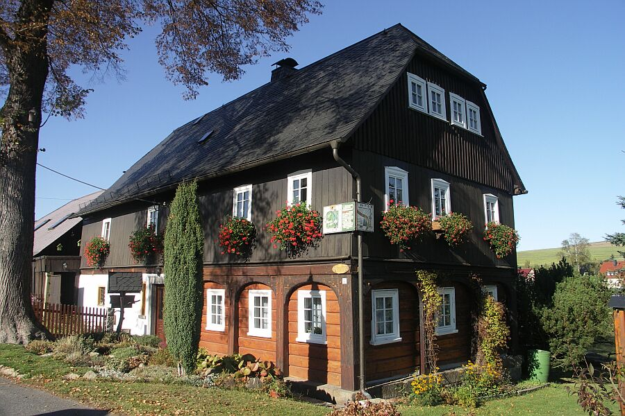 old framehouse in Taubenheim (Spree), Saxony, Germany